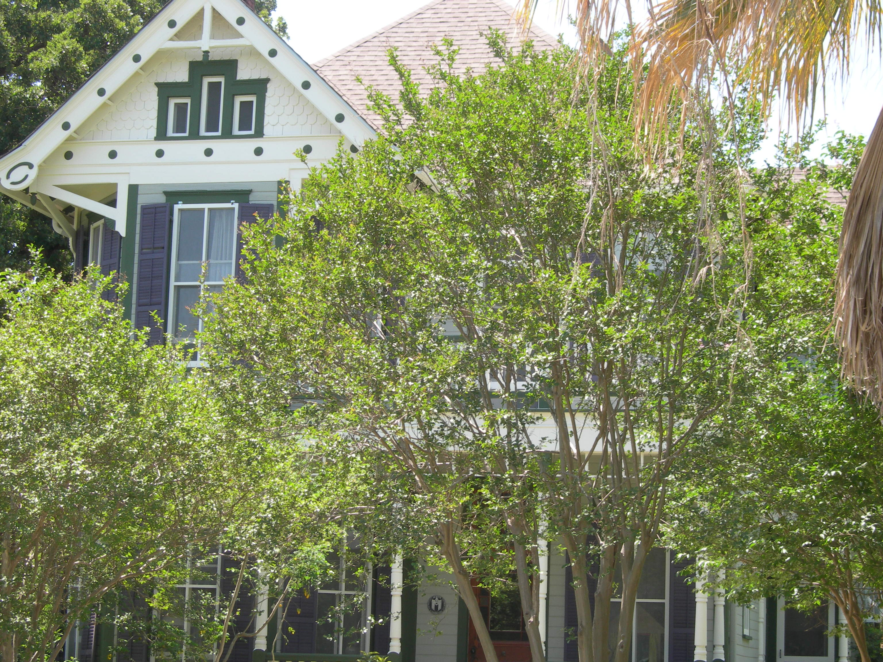 Oliphant-Walker House in Austin, Texas in May, 2008.